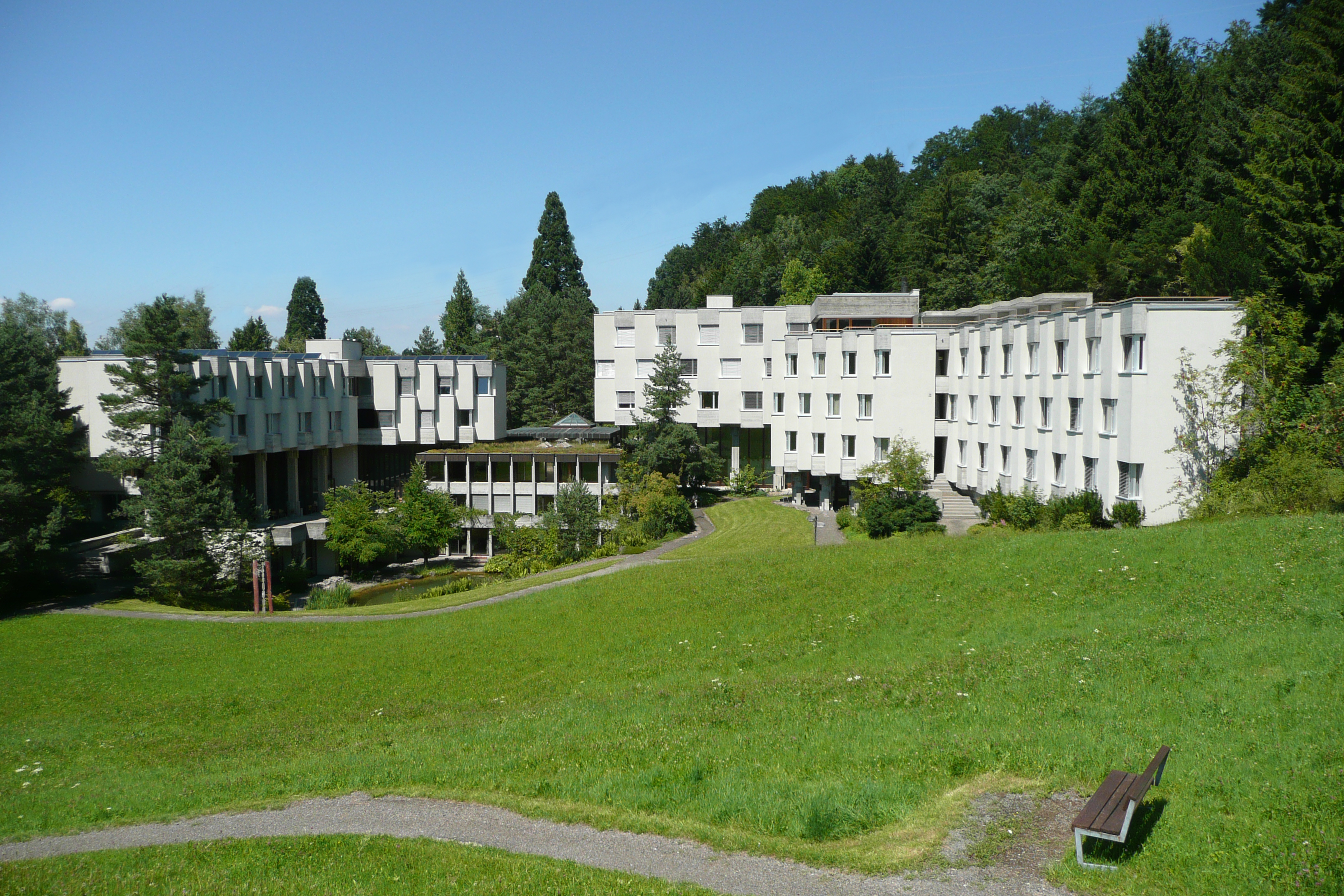 Lassalle-Haus, Bad Schönbrunn, Edlibach/Switzerland